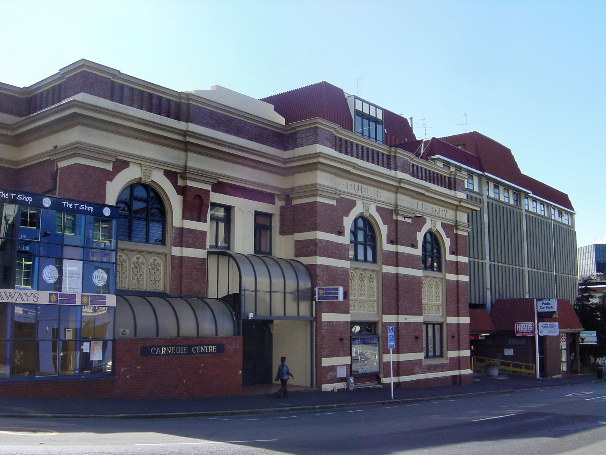 Originally it was the Public Libraray.